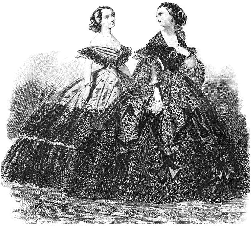 Ball gowns of the early 1860's (somewhat extreme examples of the crinoline hoop-skirt style). Left: Rose Taffeta with Chantilly flounces. Right: Black net over white satin.